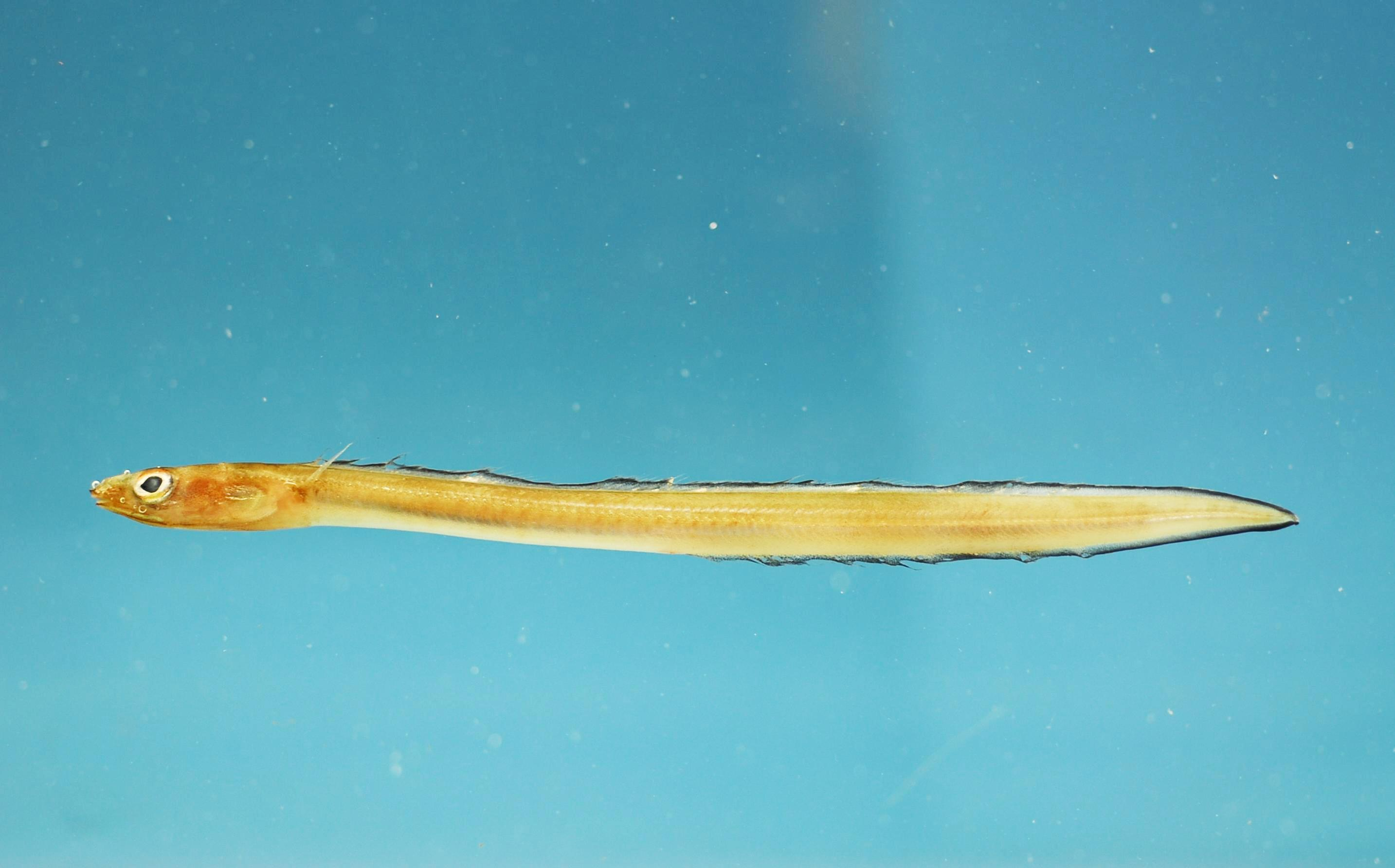 A species of conger eel ( Ariosoma selenops ). Gulf of Mexico. Credit: SEFSC Pascagoula Laboratory; Collection of Brandi Noble, NOAA/NMFS/SEFSC.